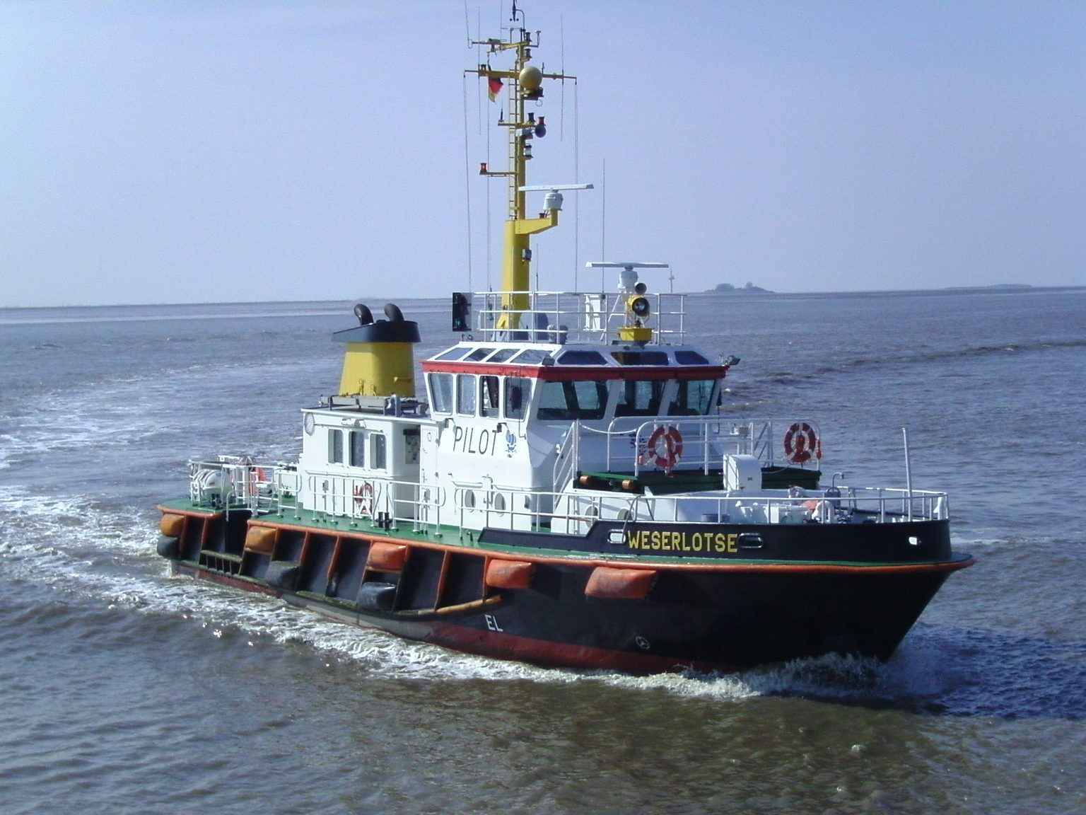 The pilot boat Weserlotse